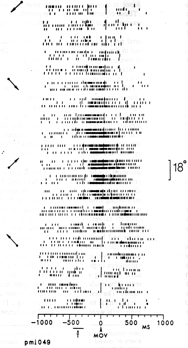 broad directional tuning of a motor cortical neuron studied using 20 movement directions in the 2D apparatus